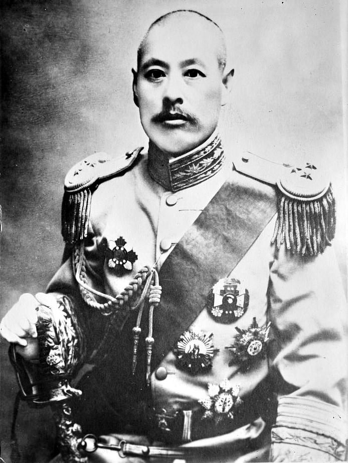 Chinese Warlord Wu Peifu 吳佩孚 in parade uniform